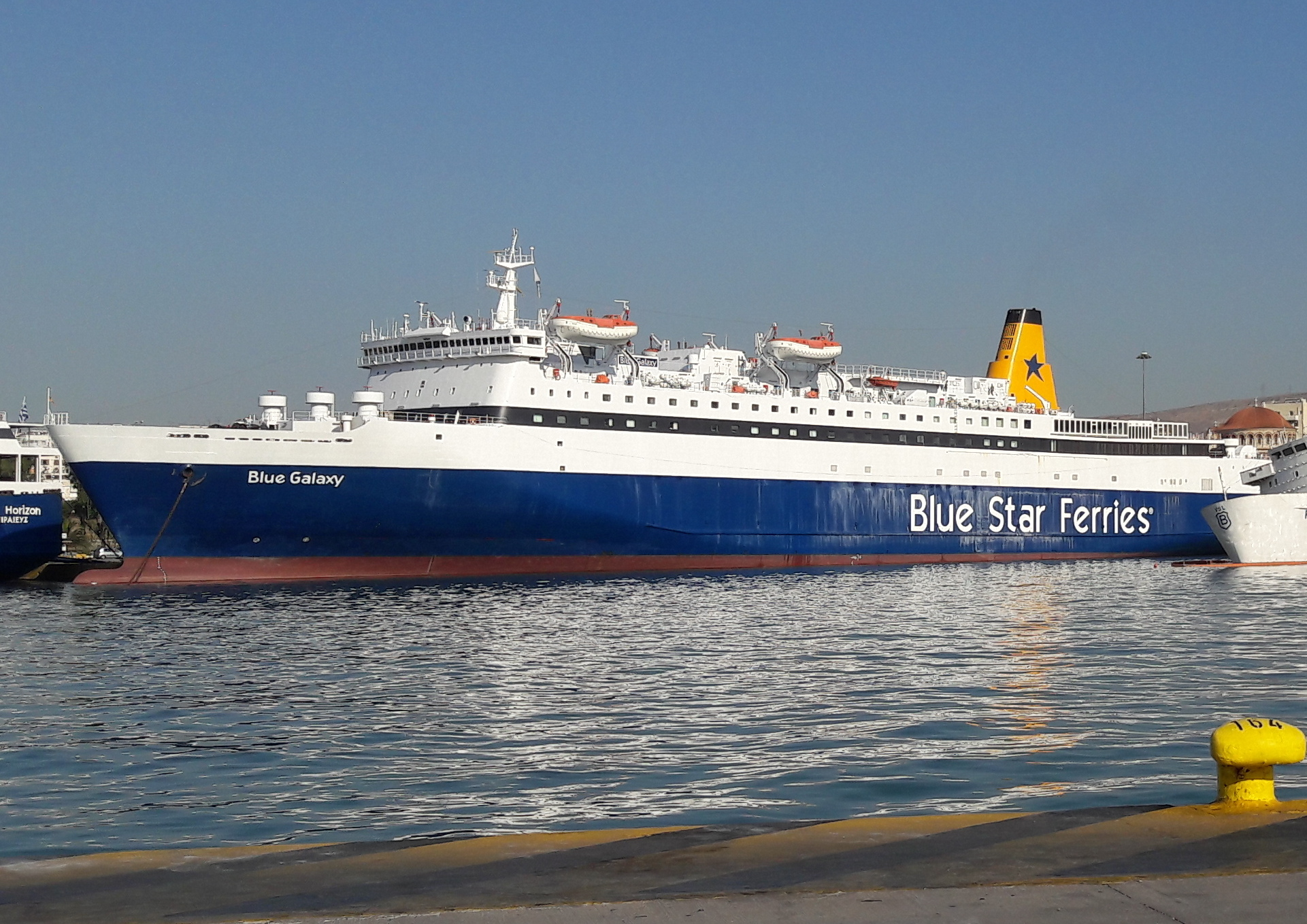 Blue Galaxy at Piraeus, August 2016